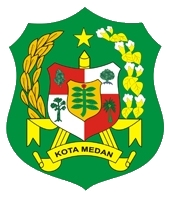 Coat of Arms of Indonesian city of Medan.